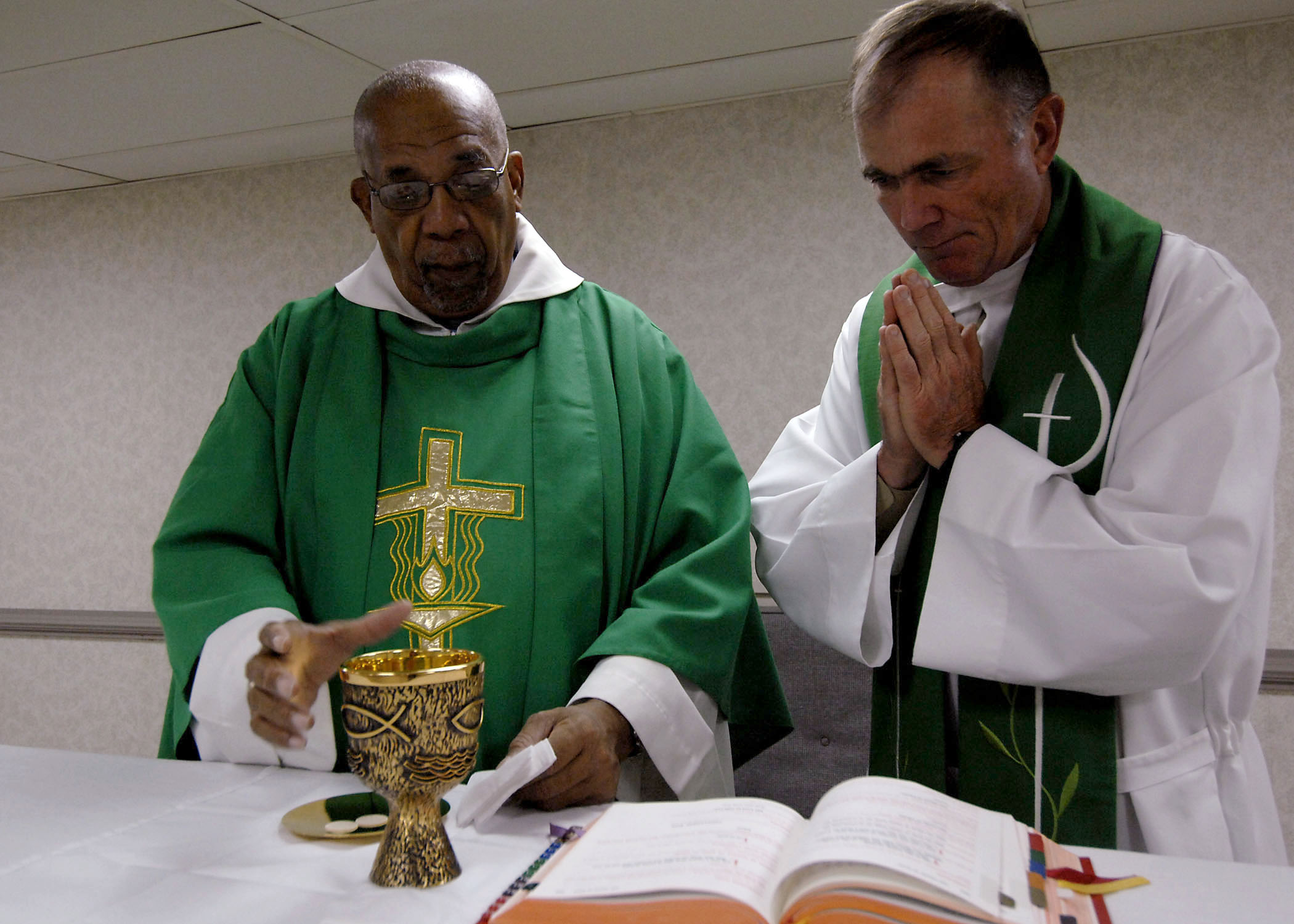 PORT-OF-SPAIN, Trinidad and Tobago (Sept. 21, 2007) - Father Joseph Harris, left, a Roman Catholic priest in Trinidad and Tobago, celebrates mass with Lt. Cmdr. Paul Evers, a Navy chaplain and Roman Catholic priest, aboard Military Sealift Command hospital ship USNS Comfort (T-AH 20). Comfort is on a four-month humanitarian deployment to Latin America and the Caribbean providing medical treatment to patients in a dozen countries. U.S. Navy photo taken by Mass Communication Specialist 2nd Class Joan E. Kretschmer (RELEASED)